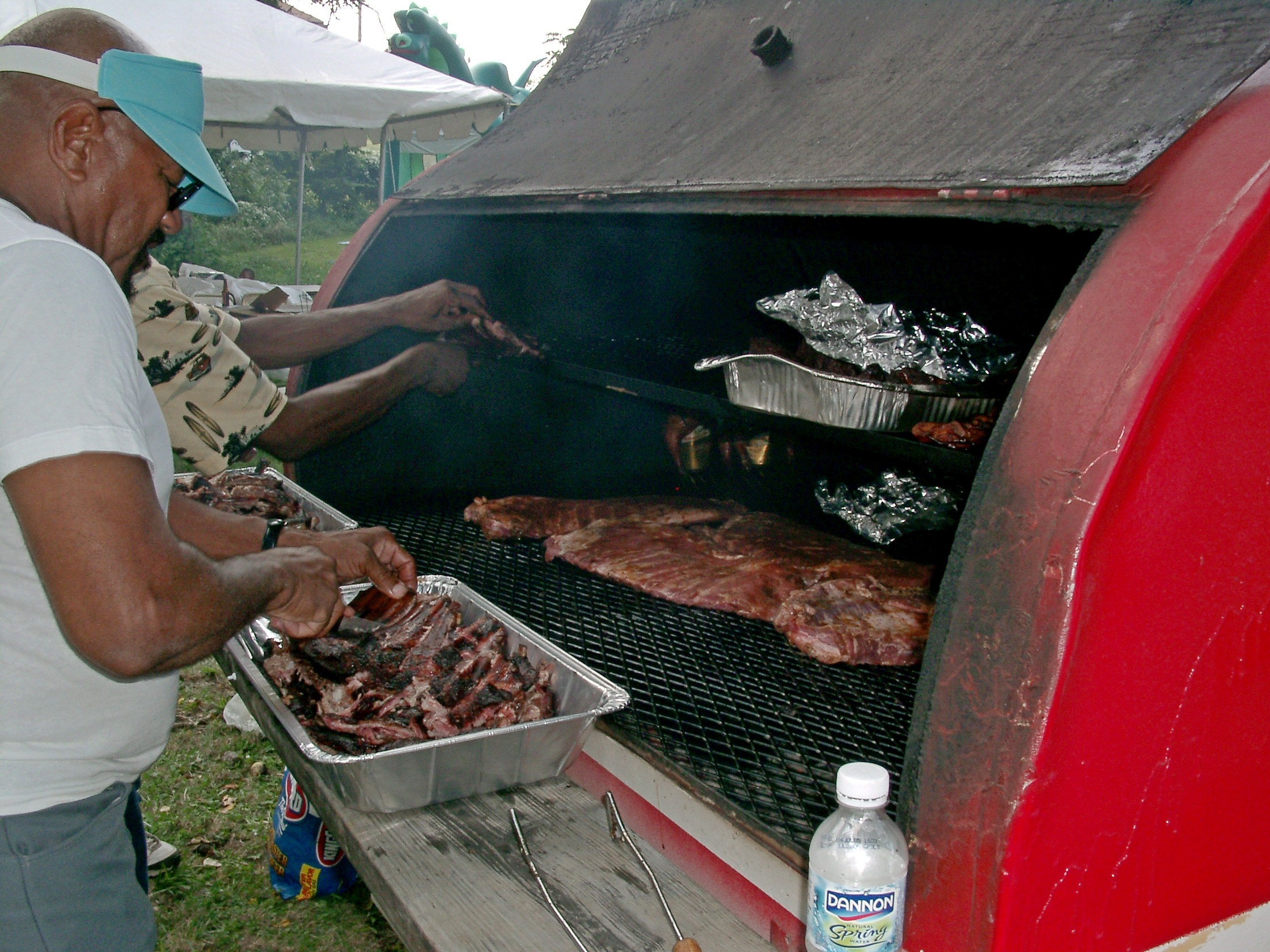 A barbecue on a trailer at a block party in Kansas City. Pans on the top shelf hold hamburgers and hot dogs that were grilled earlier when the coals were hot. The lower grill is now being used to slowly cook pork ribs and "drunken chicken".